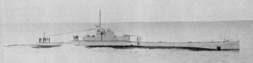 a black and white photograph of the Yugoslav submarine Hrabri underway